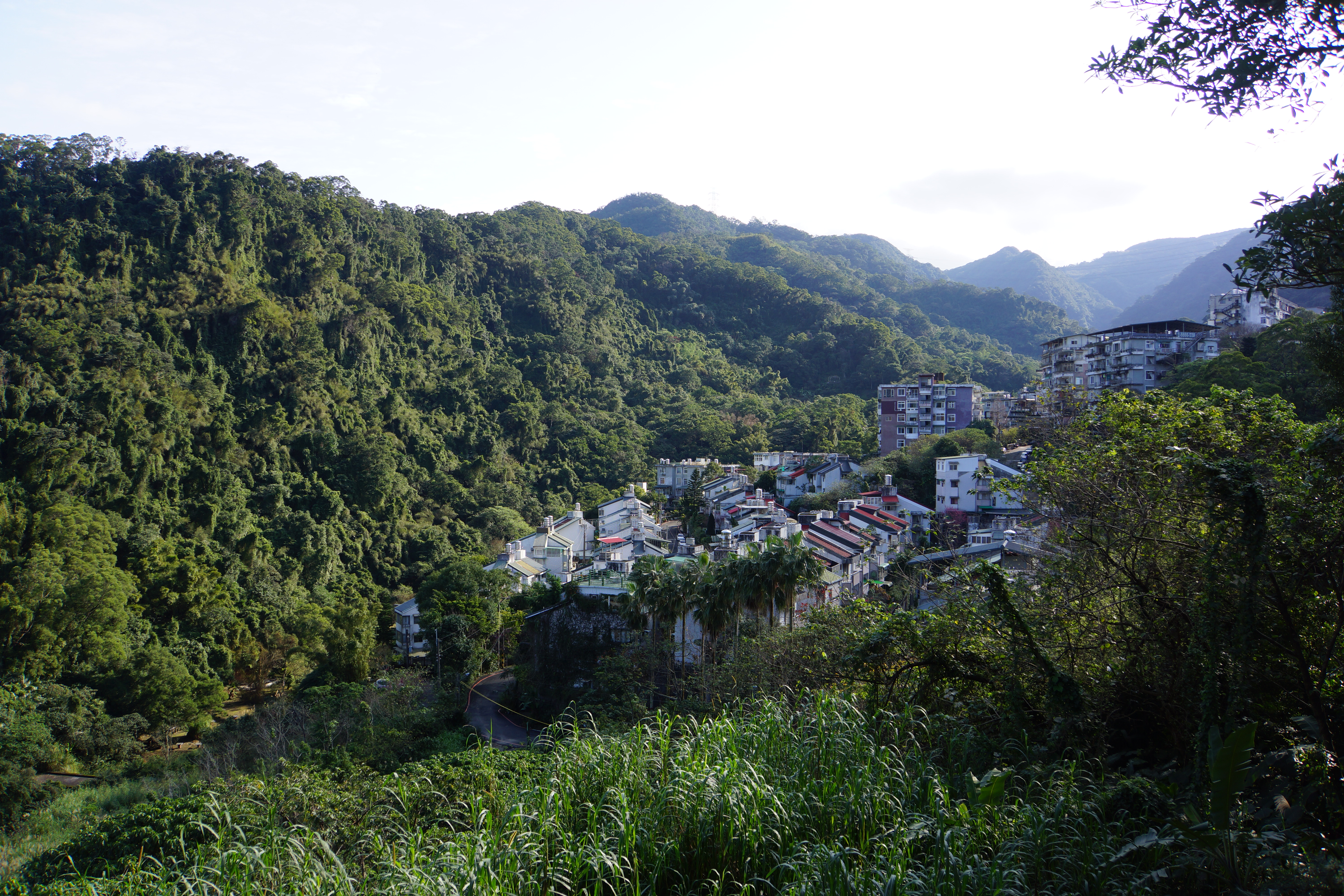 Huayuan Xincheng Community 花園新城